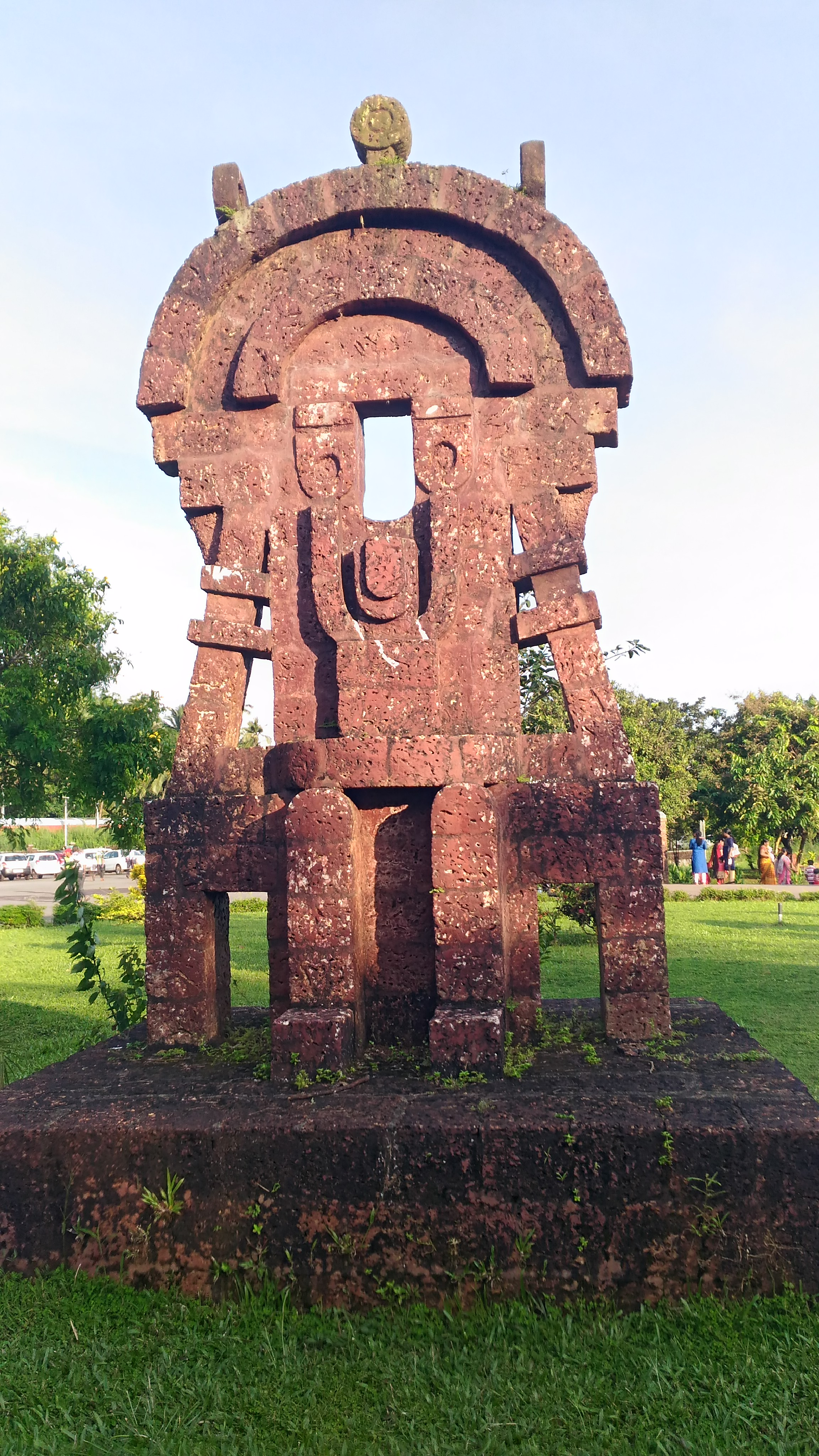 Red_Stone_Art